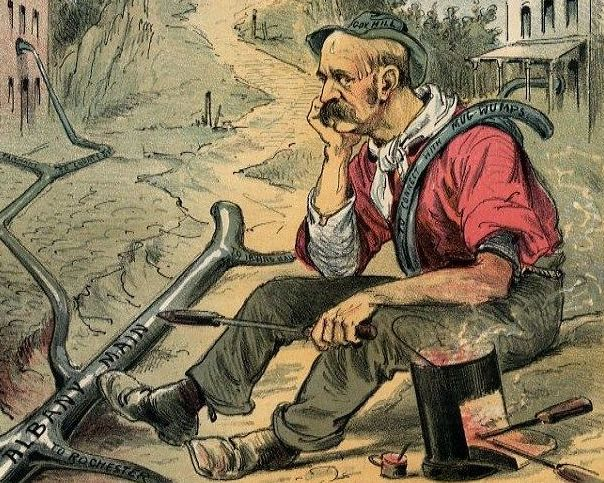 in this cartoon taken from the front cover of an August 1885 issue of Puck (magazine), then-New York governor David B. Hill is shown as a plumber.